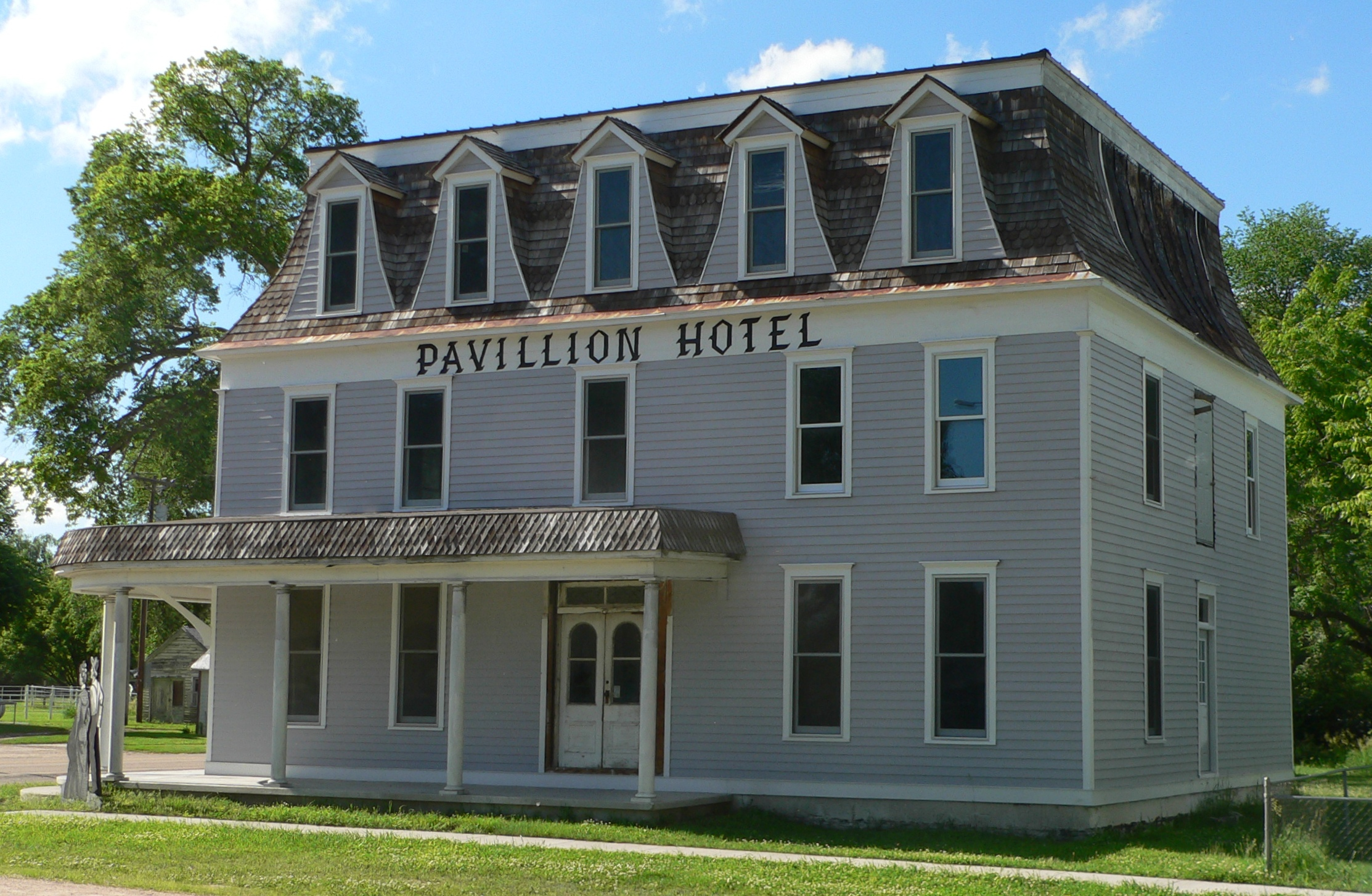 Pavillion Hotel in downtown Taylor, Nebraska; seen from the southeast. The building, designed in Second Empire style, was built in 1887. It is listed in the National Register of Historic Places.